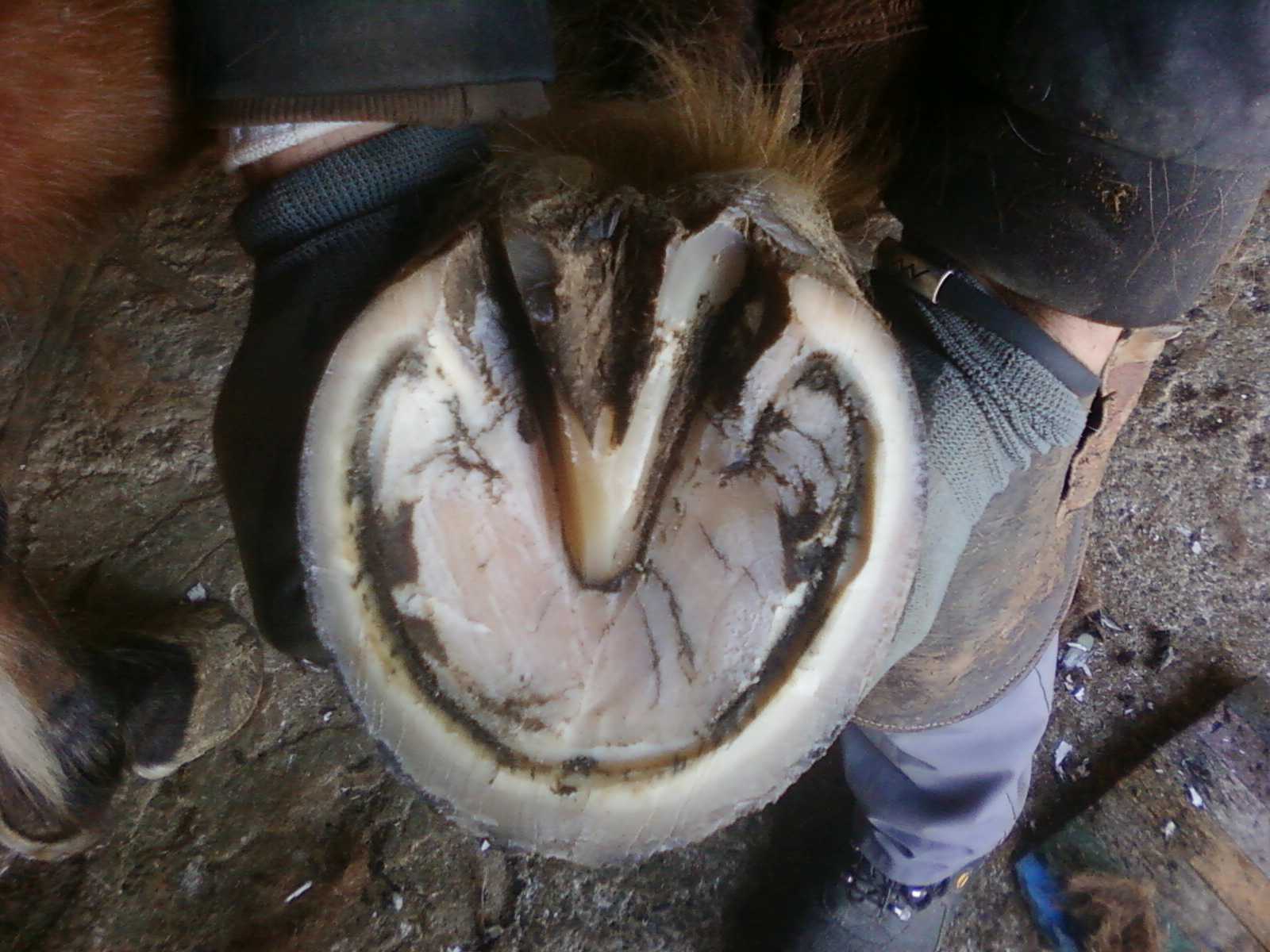 horse's Hoof